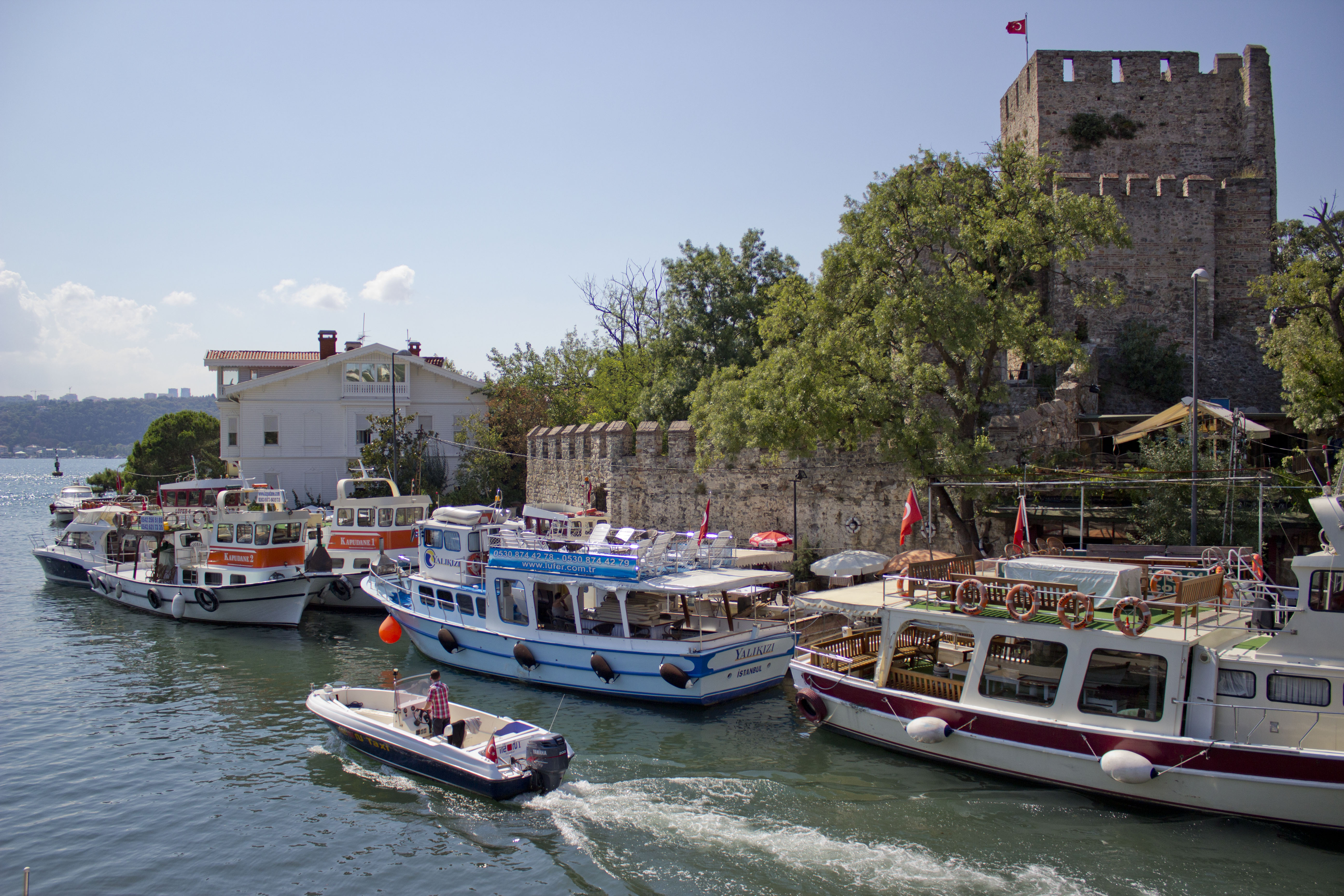 A view of the Anatolian fortress in Istanbul, Turkey